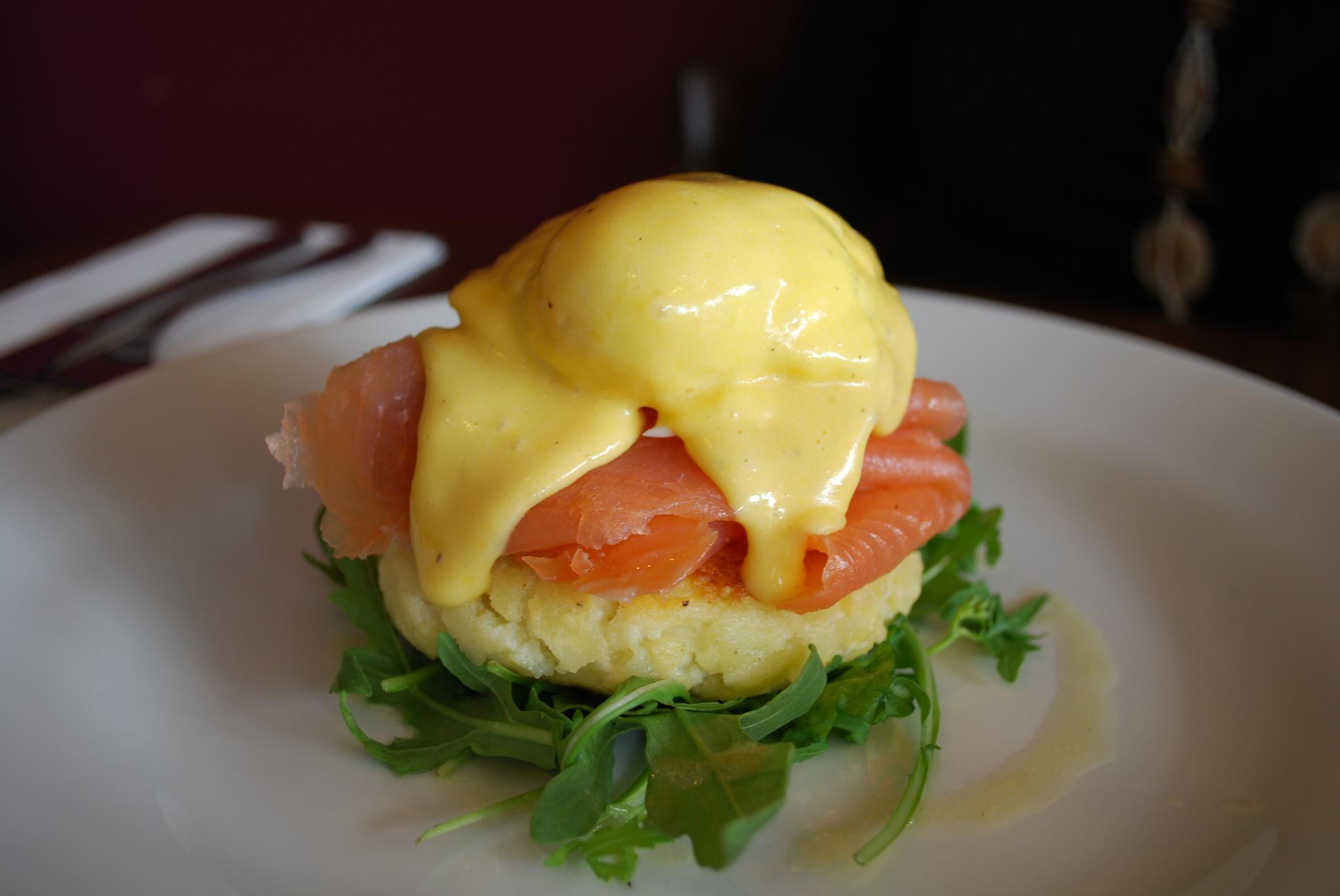 A salmon Benedict variant—poached egg on smoked salmon, atop a baked ricotta and potato cake on a bed of rocket (arugula), covered with hollandaise sauce—as served by the Relish Food Store at 256 McKinnon Road in McKinnon, Victoria, Australia. Photographer's comment: "Julia saw that the other diners all seemed to be having smoked salmon in something or the other, so she went for this. The generous folds of smoked salmon was smoky and rich, and really luscious! Compared to that, the baked potato and ricotta cake didn't stand a chance, although it did stand quietly in the back preventing the salmon from overpowering your palate. The egg yolks were a bright orange, but it was a pity that the yolks were not runny, the way we liked it." Baked Ricotta and Potato Cake with Smoked Salmon - Relish Food Store AUD12.50